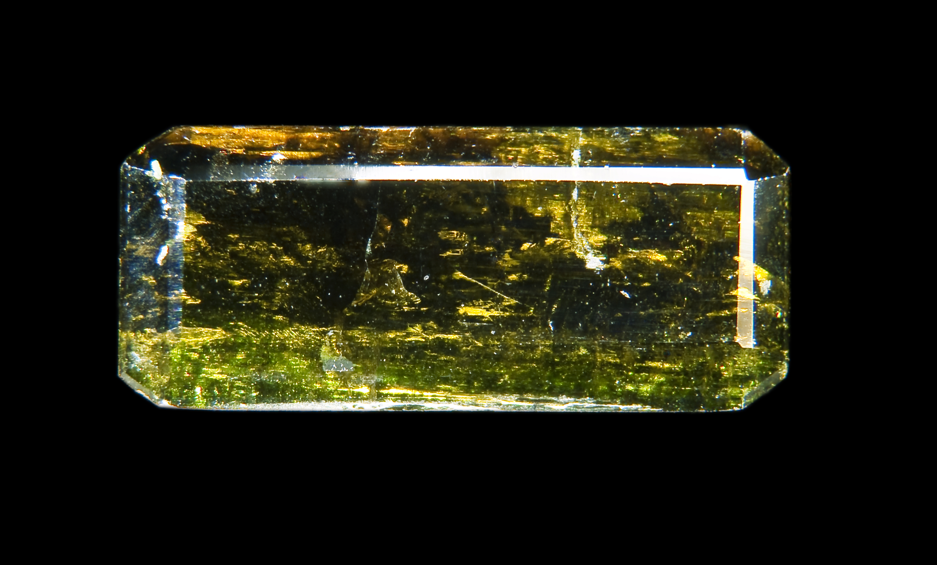 Epidote Cut - Madagascar - 1.86Cts